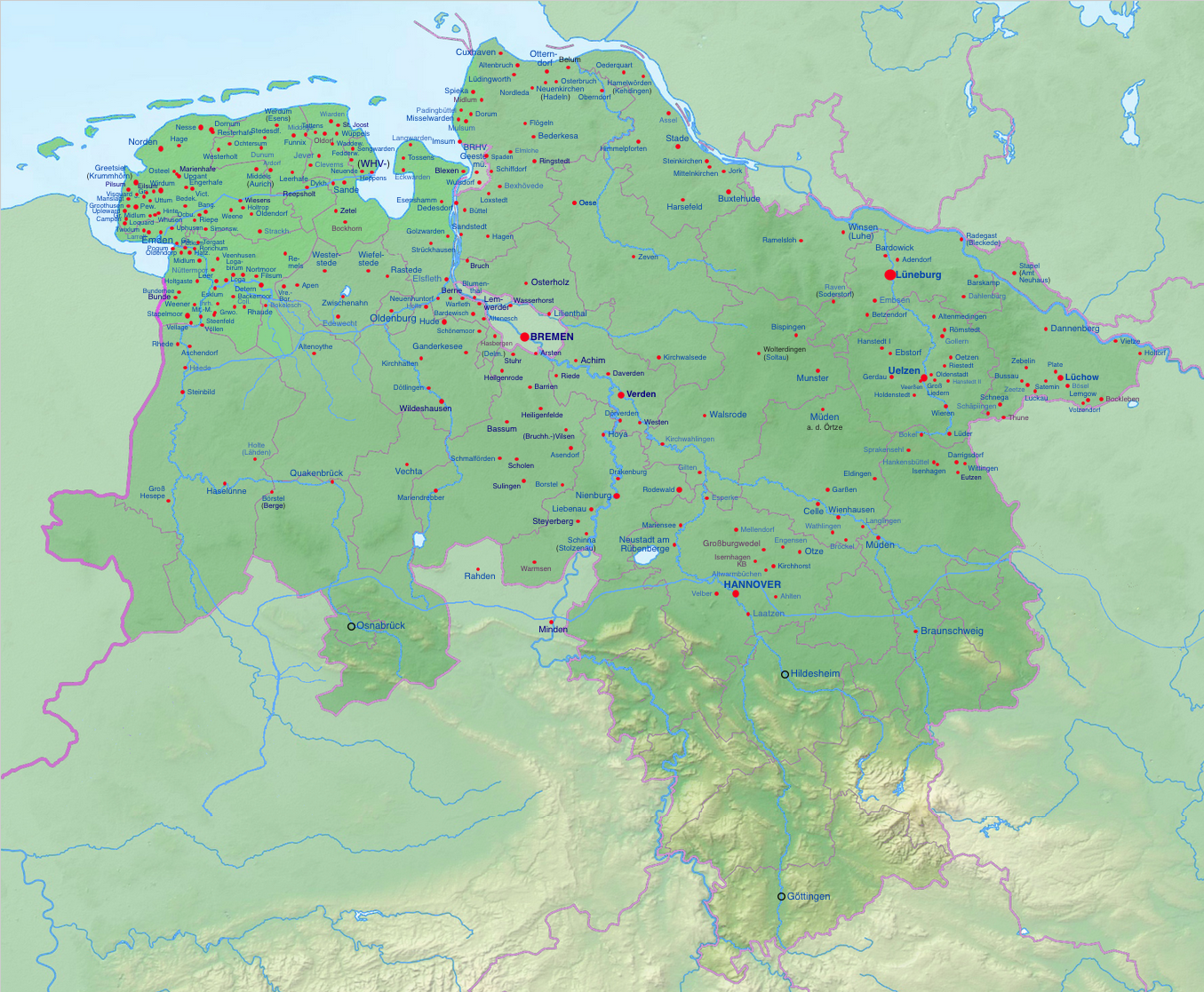 Detailed distribution of Brick Gothic in Lower Saxony